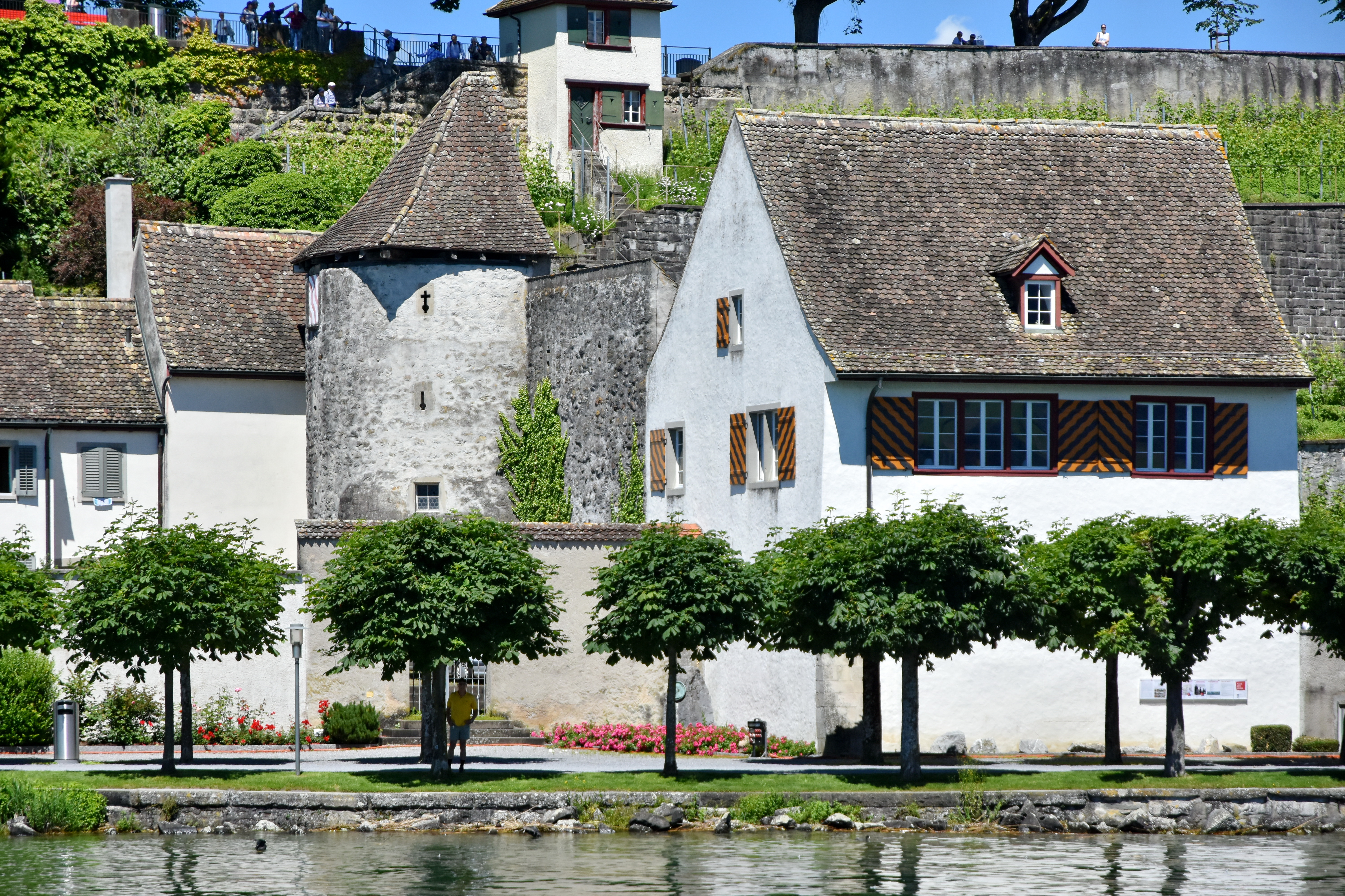 Rapperswil : Lindenhof hill the castle's (Schloss) hill, and on lakeshore the Kupuzinerkloster and Einsiedlerhaus/Endingertor fortification, as seen from Zürichsee-Schiffahrtsgesellschaft (ZSG) ship MS Linth on Zürichsee in Switzerland